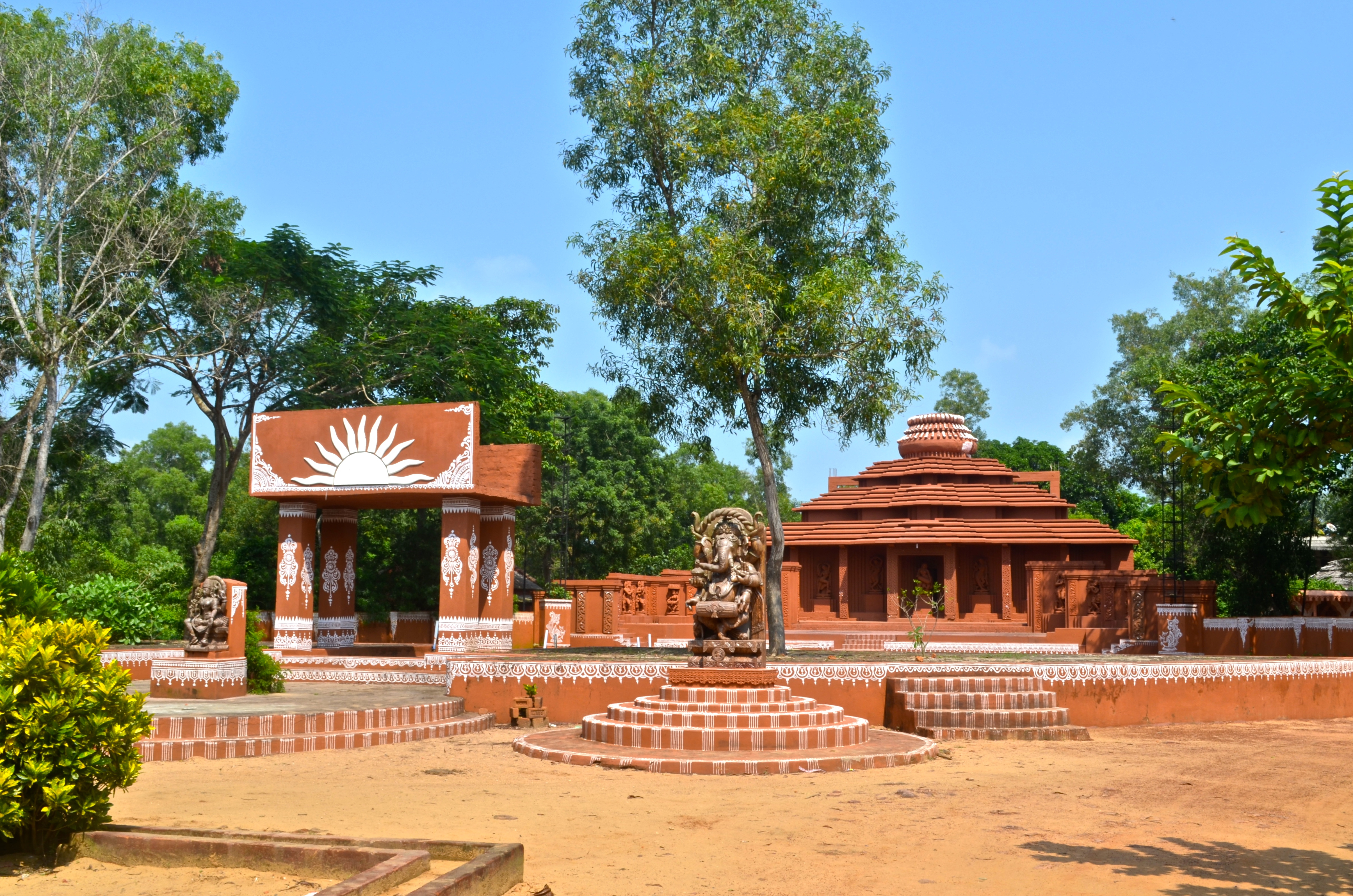 Konark Natya Mandap is an open dance stage and a dance institute at Konark, Puri district, Odisha, India—that specialize in traditional classical dance forms of the region like Odissi, Mahari and Gotipua (also Gotipuo).